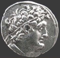 Ptolemy VII Neos Philopator. Gold octadrachm issued by Ptolemy VII